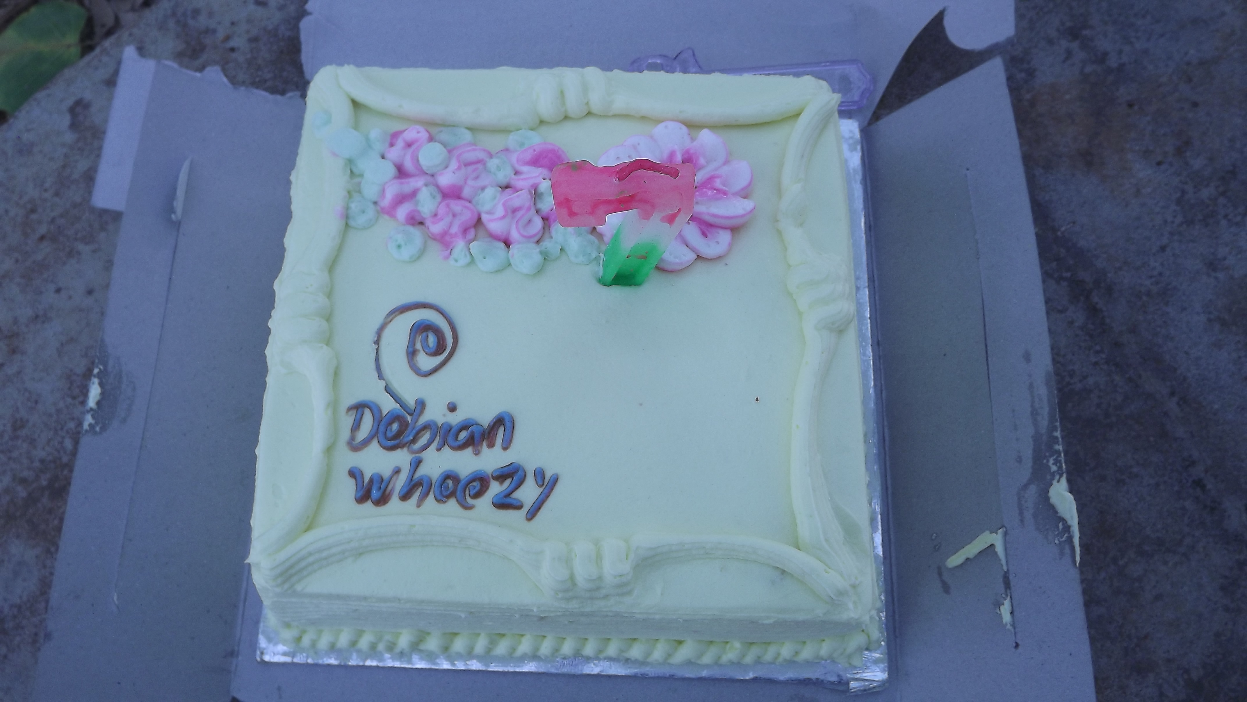 cake prepared for celebrating the release of debian wheezy.